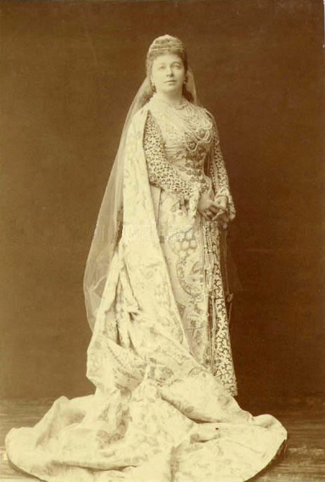 Emma Albani as Desdemona in Verdi's Otello